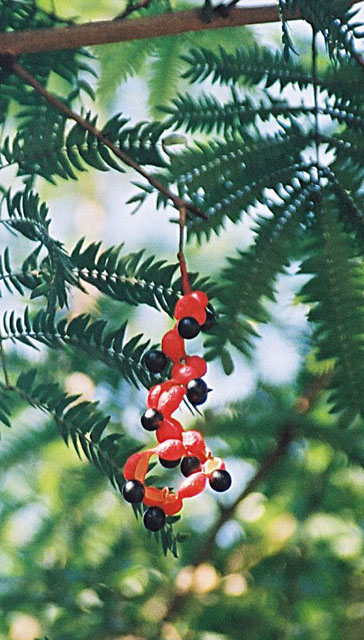 Also known as Semilla de Lorita in its range from Mexico and the Caribbean to Ecuador. Photo from a garden in Sta. Cruz, Bolivia. In context at